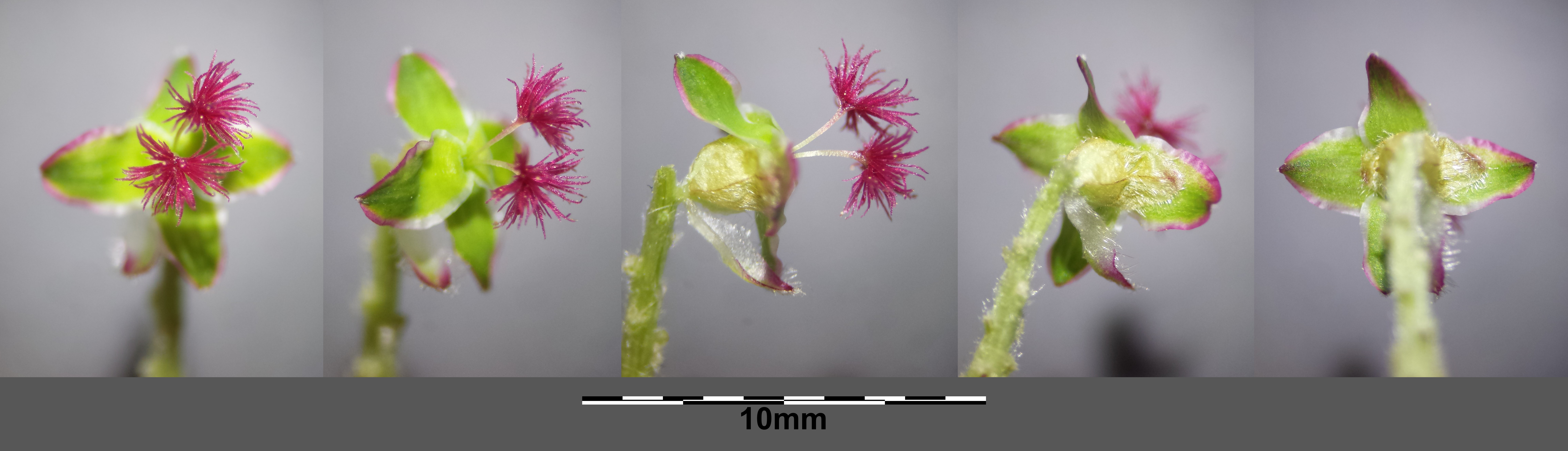 ♀ flower Taxonym: Sanguisorba minor subsp. minor ss Fischer et al. EfÖLS 2008 ISBN 978-3-85474-187-9 Location: next to Strebersdorf, Floridsdorf, Vienna - ca. 160 m a.s.l. Habitat: fallow land